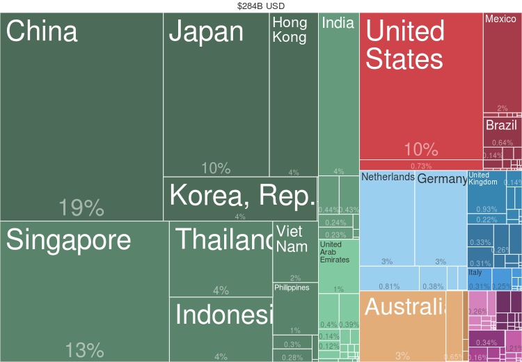 2014 Malaysia Countries Export Treemap